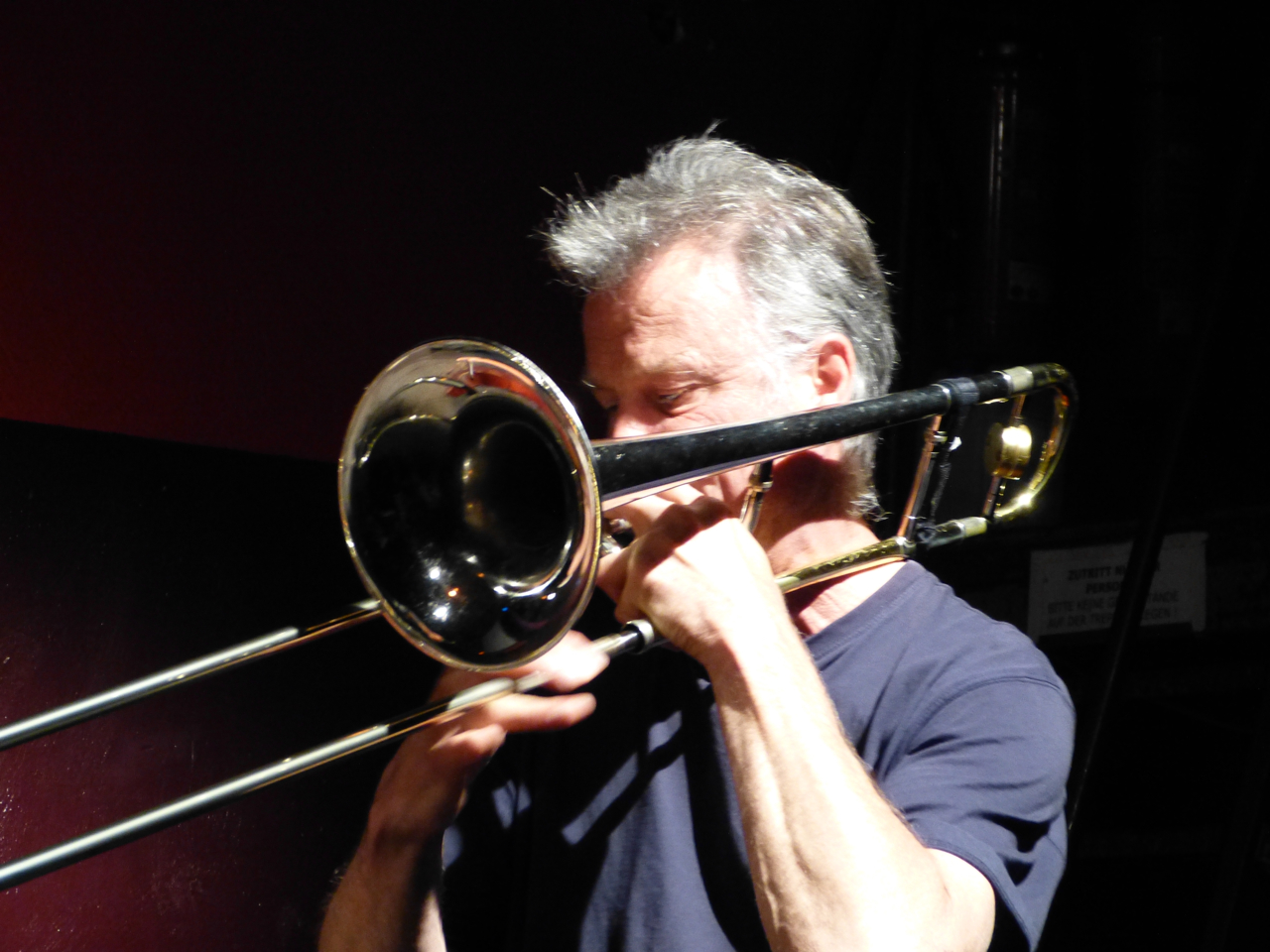 Paul Hubweber during the Memorial for Peter Kowald at Stadtgarten Cologne, Germany, September 21st, 2012